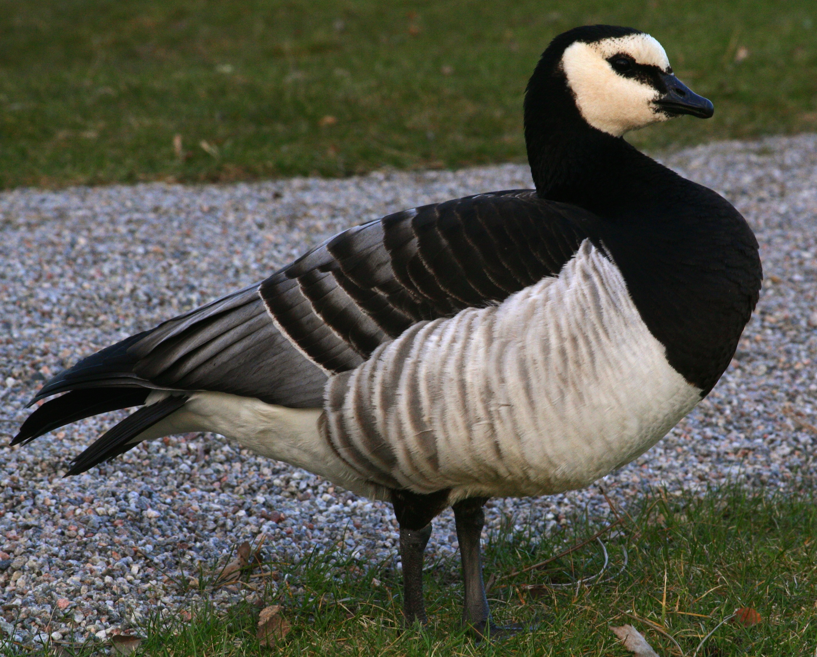 Barnacle Goose (Branta leucopsis), Stockholm, Sweden